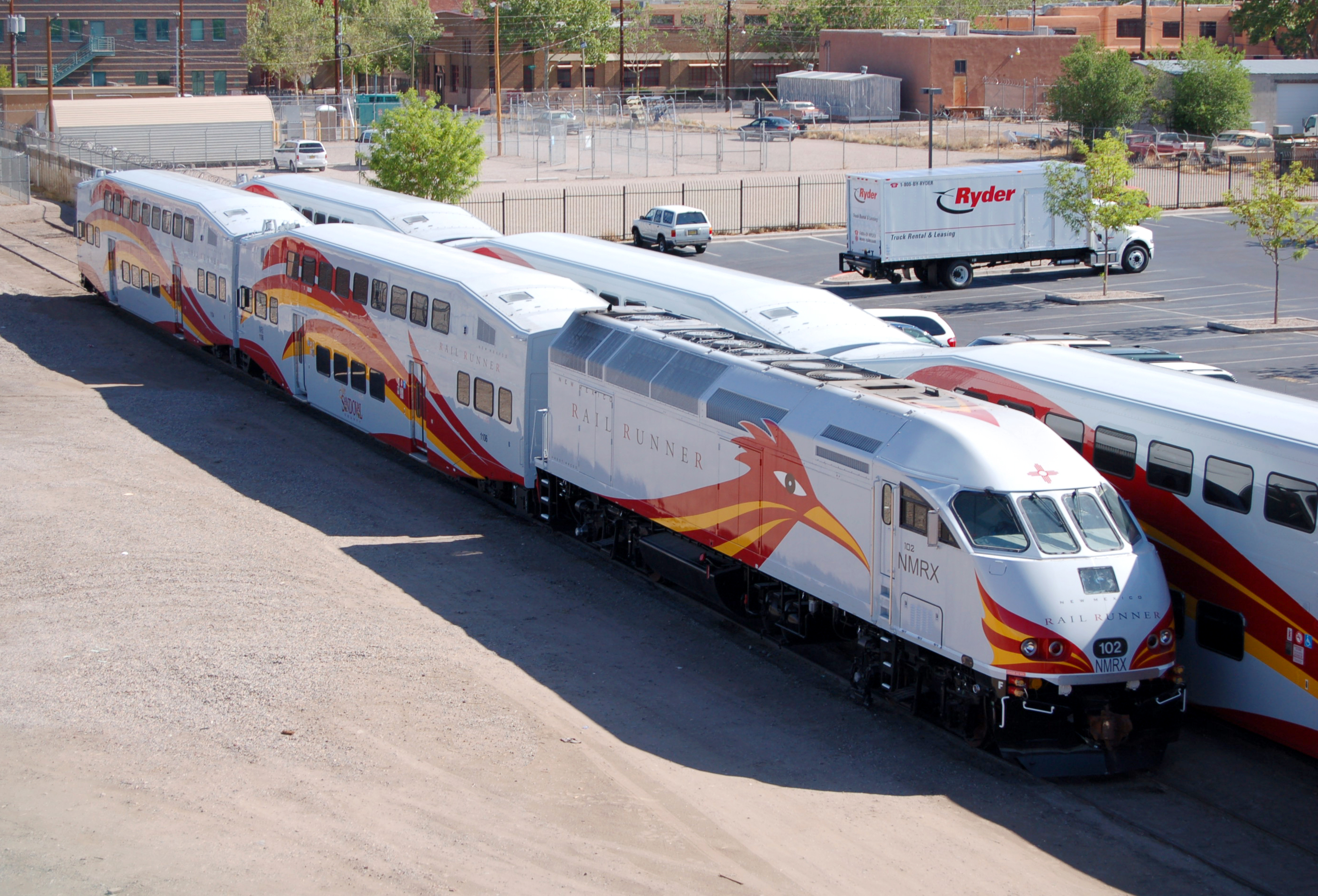 New Mexico Rail Runner commuter train in the yard across from Alvarado Transportation Center in April 2006